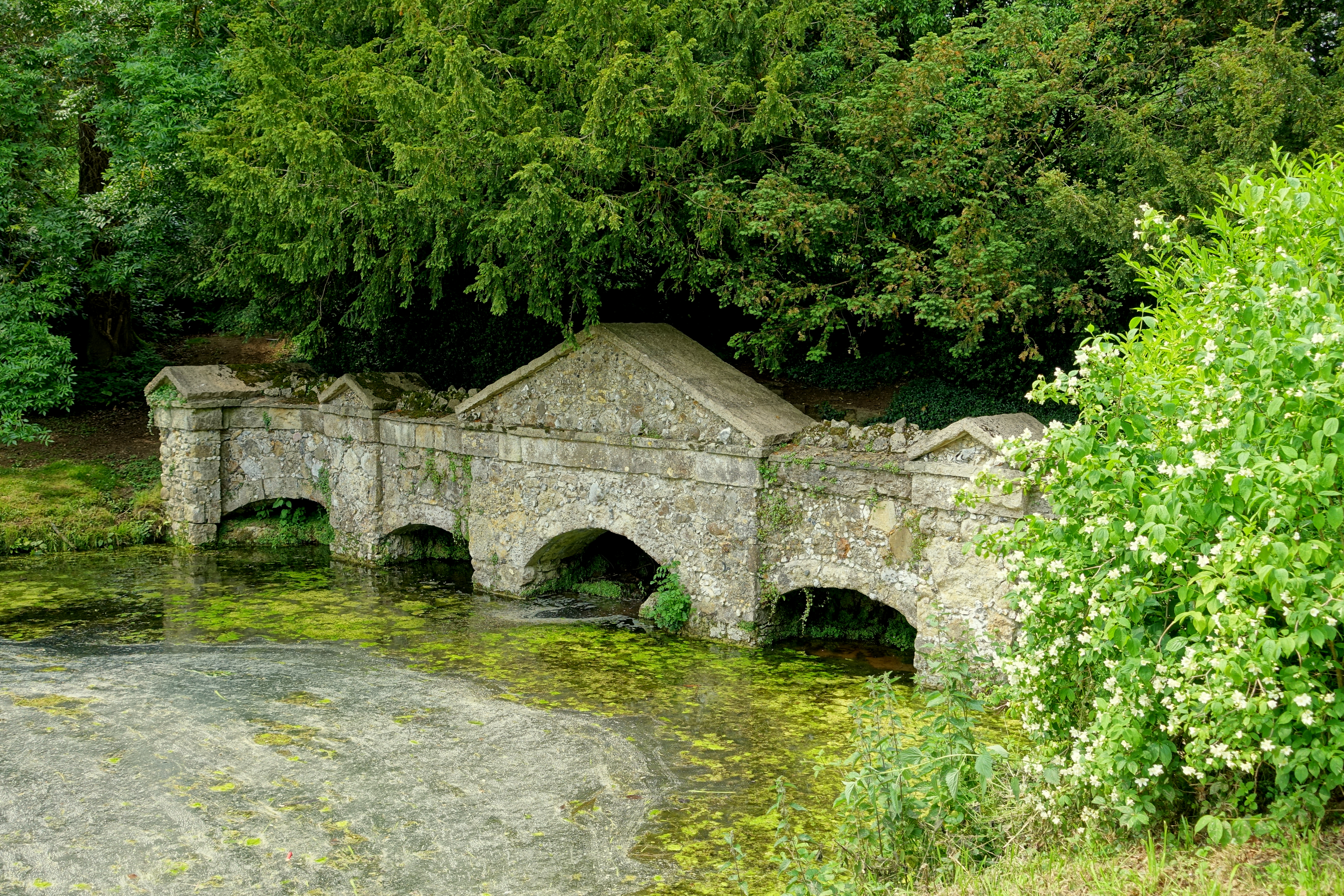 Shell Bridge, Stowe - Buckinghamshire, England.